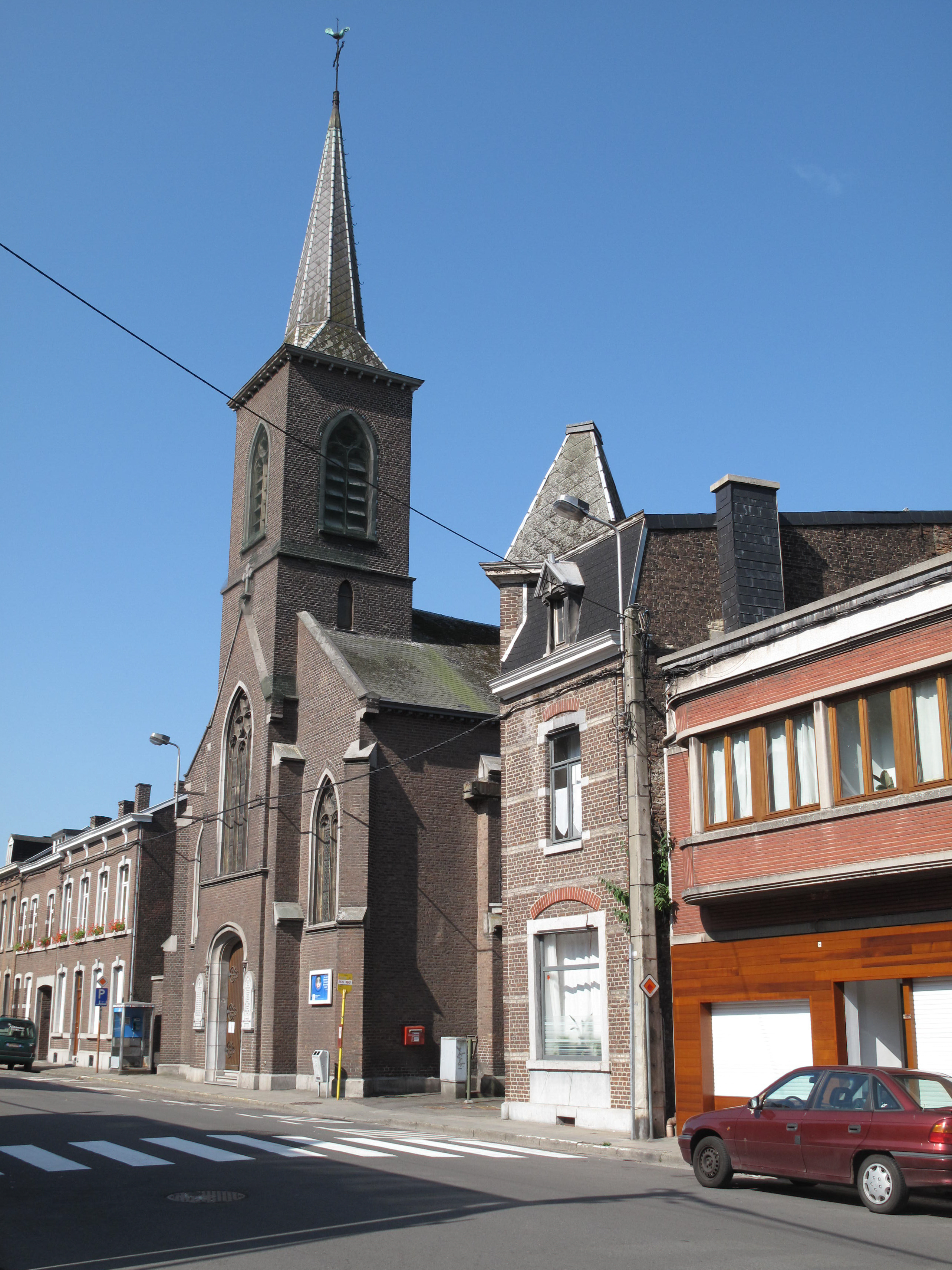 Souverain-Wandre, church